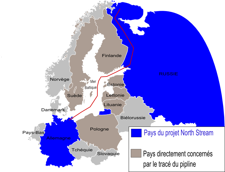 North Stream Project